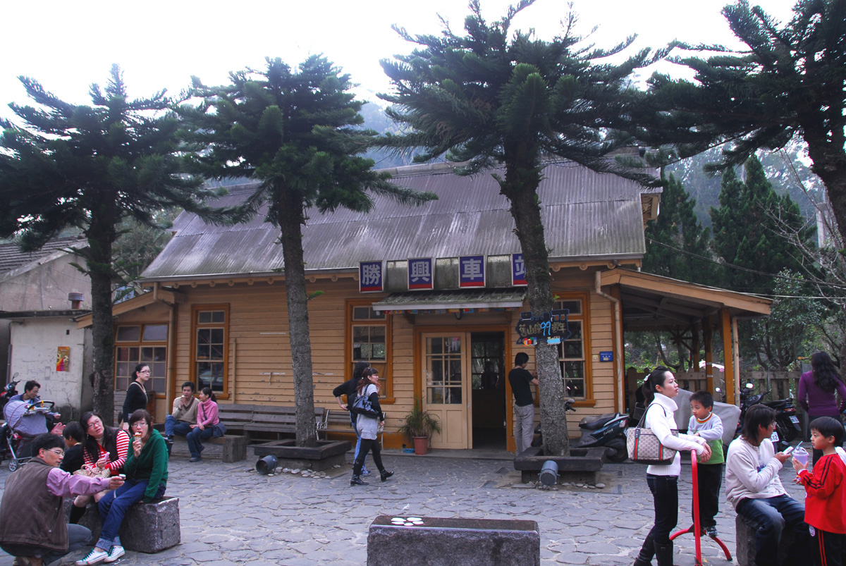 Shengsing Station is a train station along Old Mountain Line, an abandoned section of Taichung Line, one of the trunk line of Taiwan Railway Administration. It is located within the boundary of SanYi Township, MiaoLi County. Today the station has been turned into a tourist site rather than a transportation infrastructure.